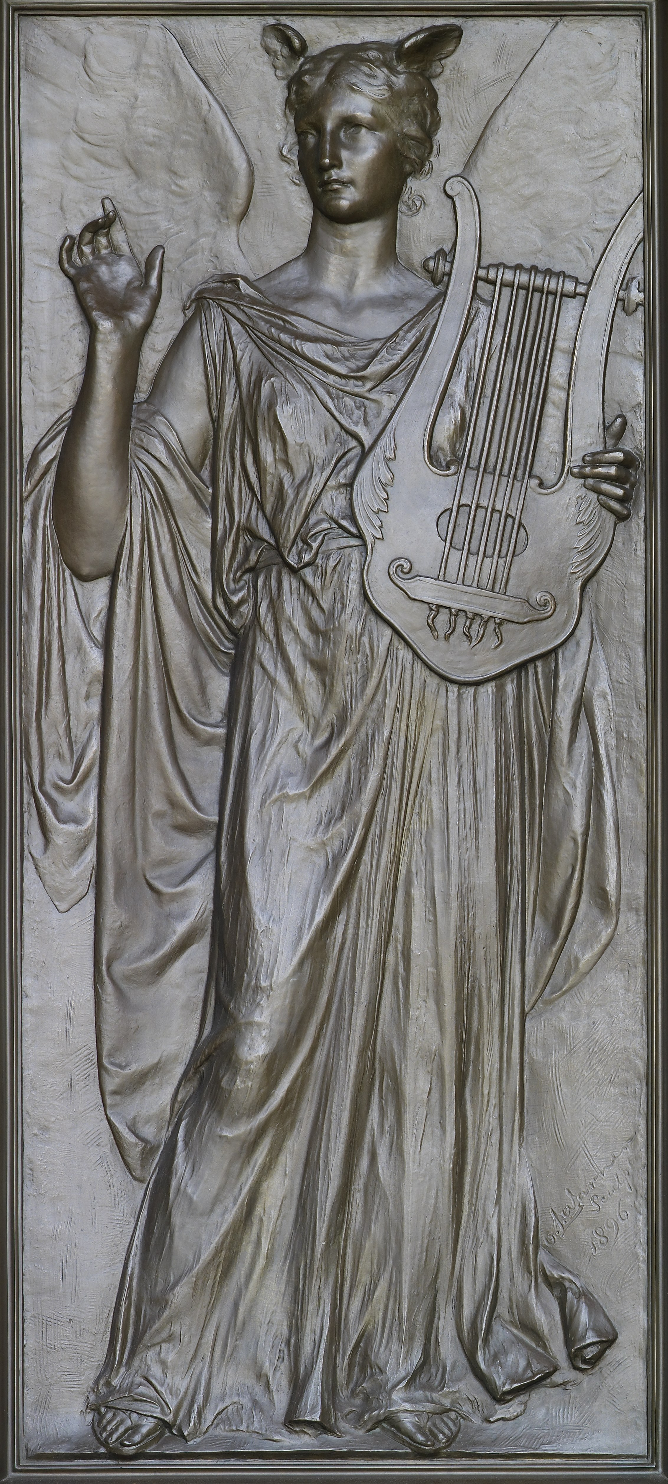 Imagination (1896). Olin Warner (completed by Herbert Adams). Bronze door at main entrance of the Library of Congress Thomas Jefferson Building.